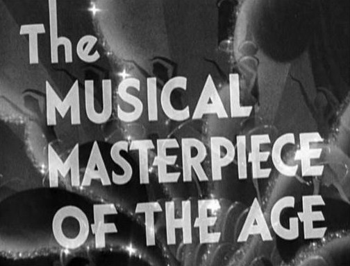 Frame from public domain trailer for 1933 Warner Bros. film Gold Diggers of 1933 showing hyperbolic words "Musical Masterpiece of the Age" in type